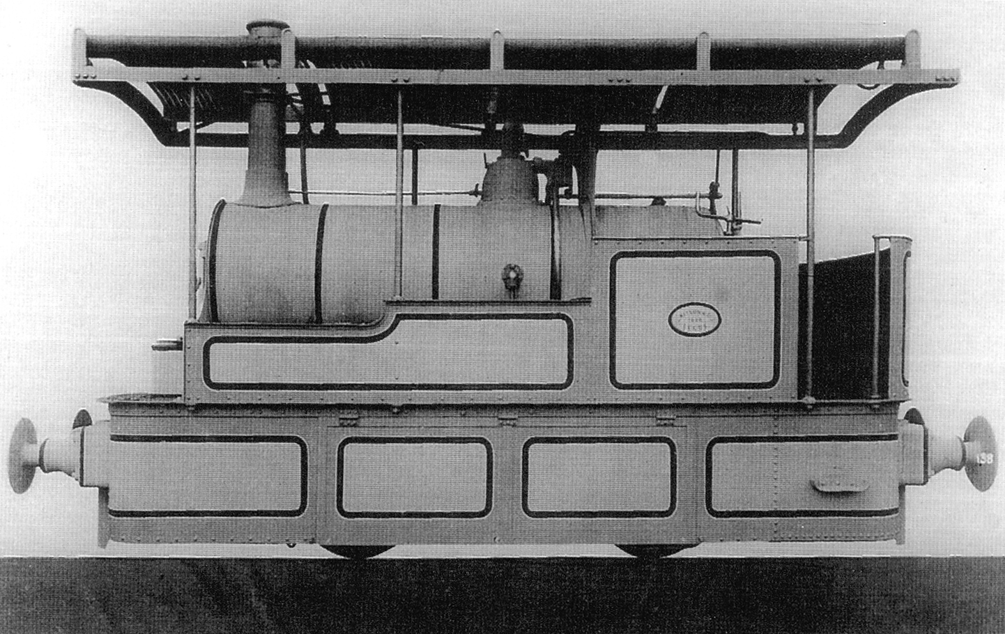 Cape Copper Company's Kitson Condenser no. T198 "John Taylor" of 1886 (0-4-0)